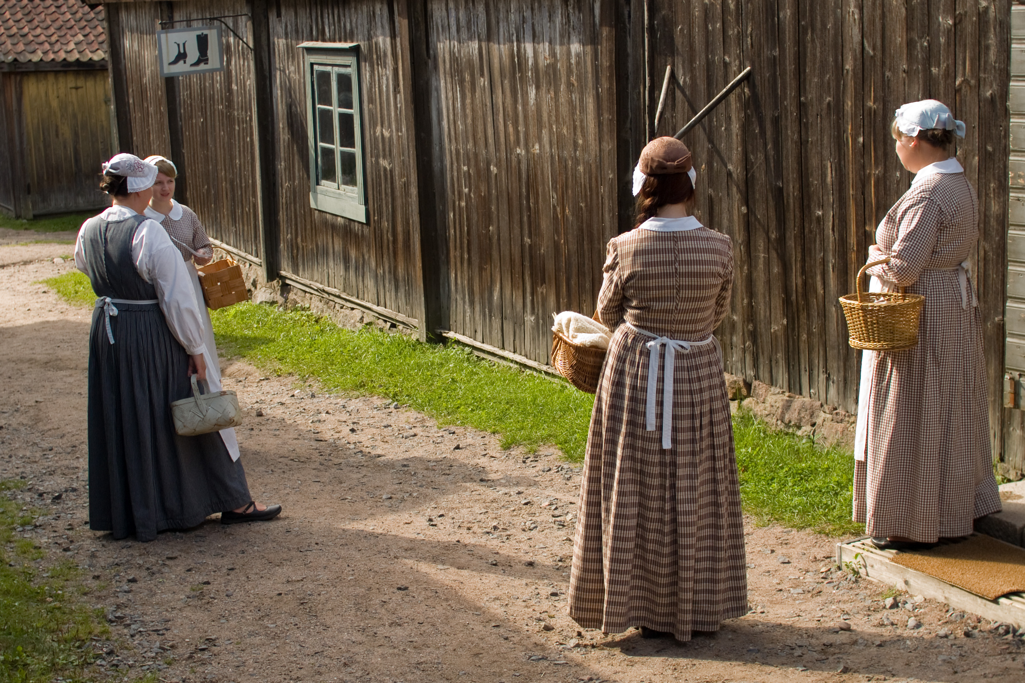 Women with baskets at the Luostarinmäki (Cloister Hill) Handicrafts Museum in Turku